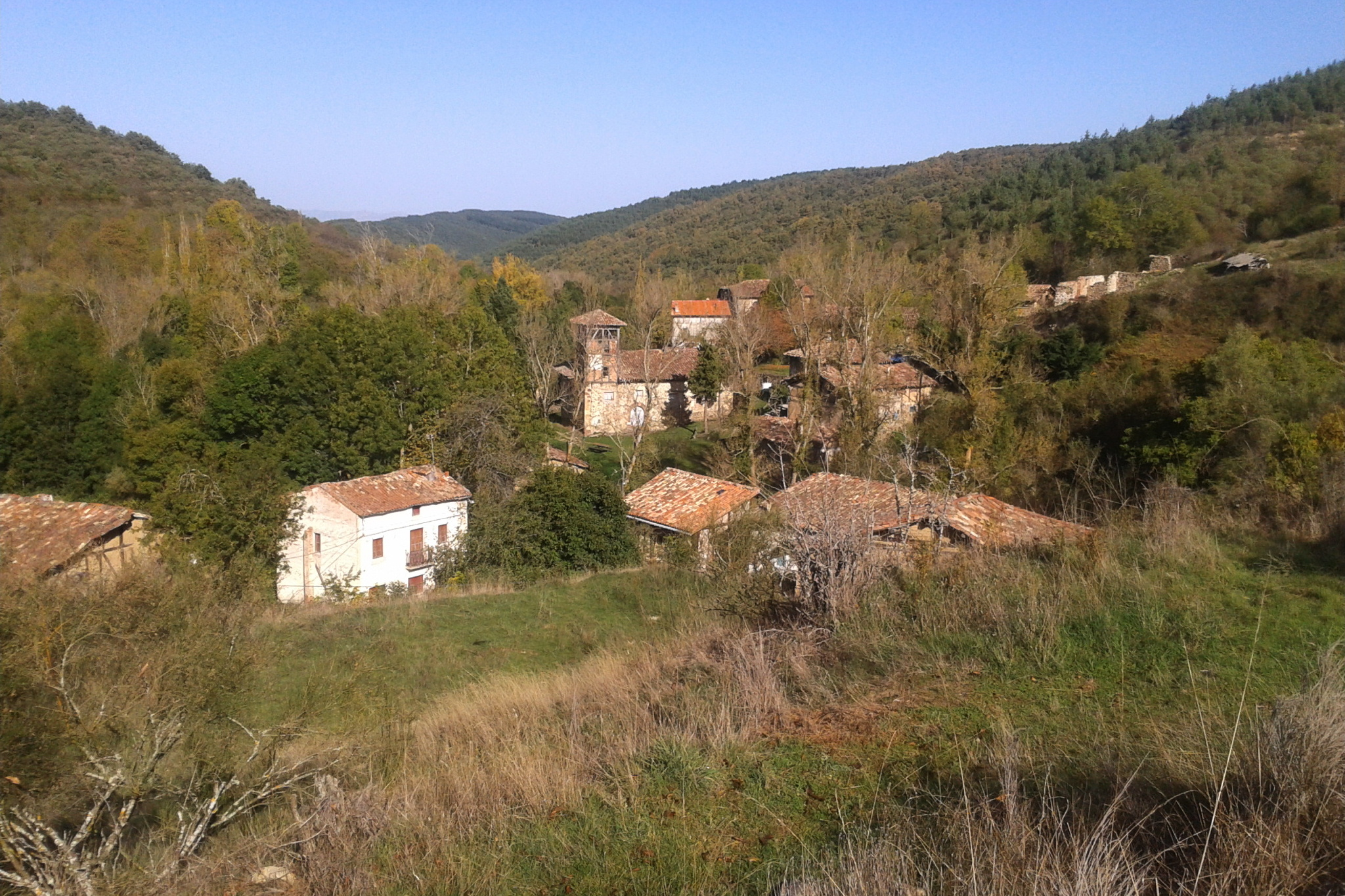 Avellanosa de Rioja (Belorado, 26-10-2014)